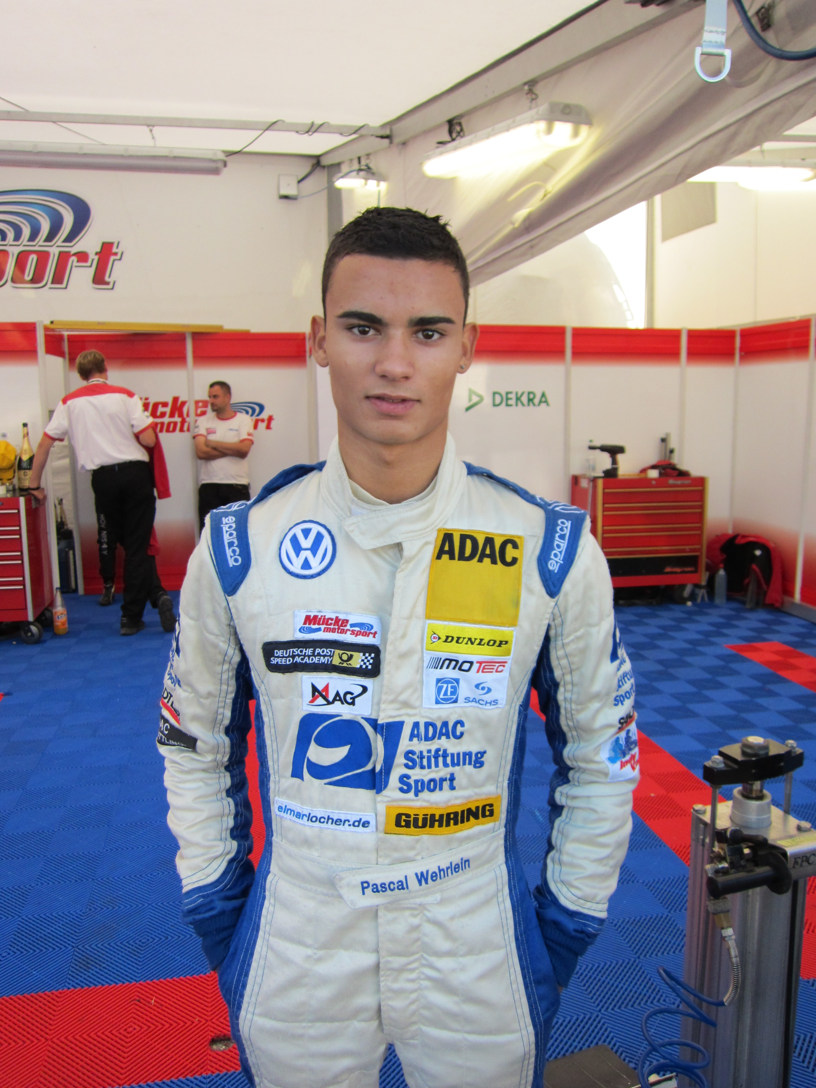 Pascal Wehrlein: the photo was taken during 2011's ADAC GT Masters race weekend at Hockenheim